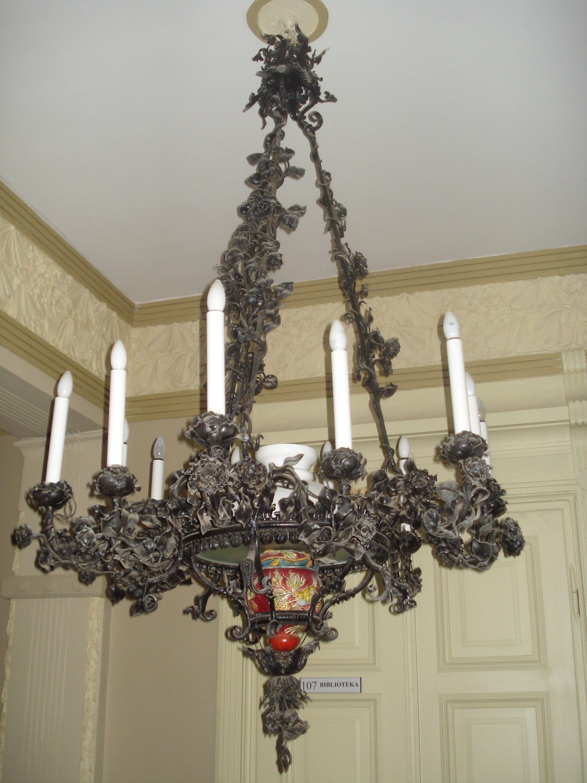 Chandelier in the palace of the Vileišis family (now Institute of Lithuanian Literature and Folklore)